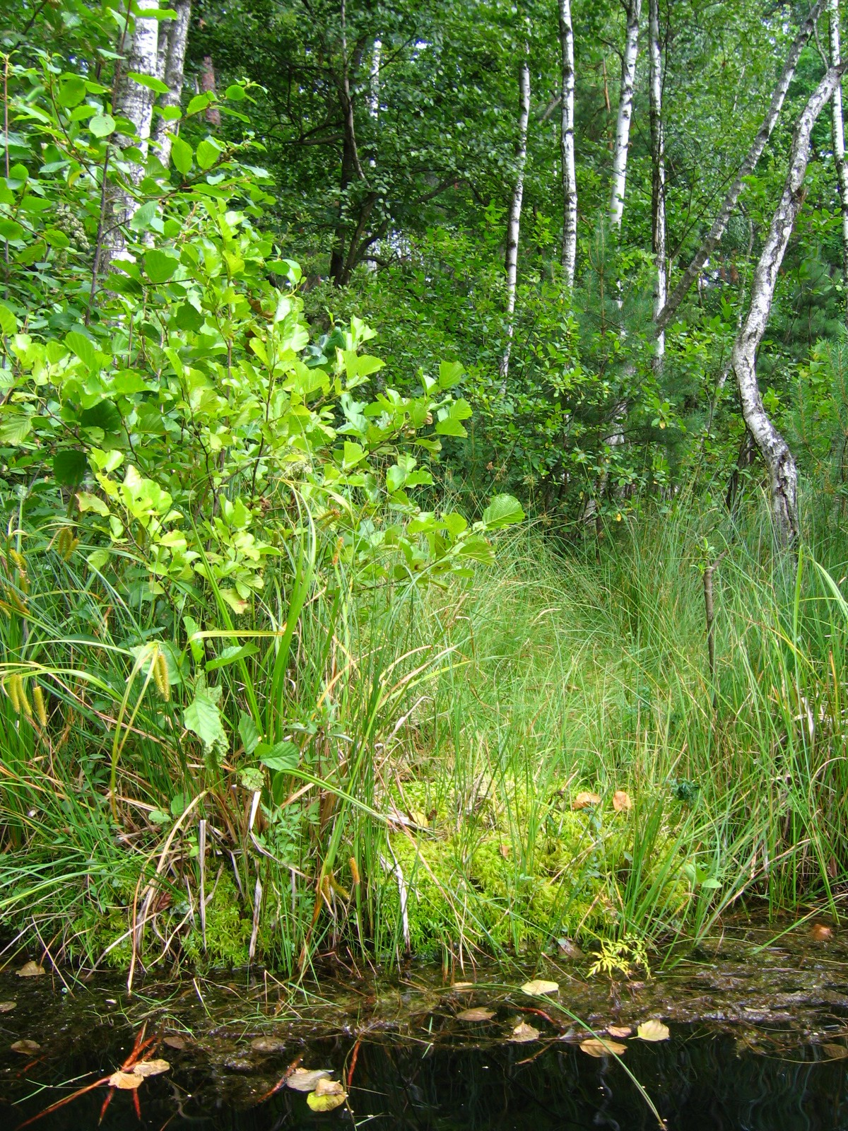 Forest in summer near Trzeci Staw lake in Lasy Golejowskie forest, Staszów, Poland